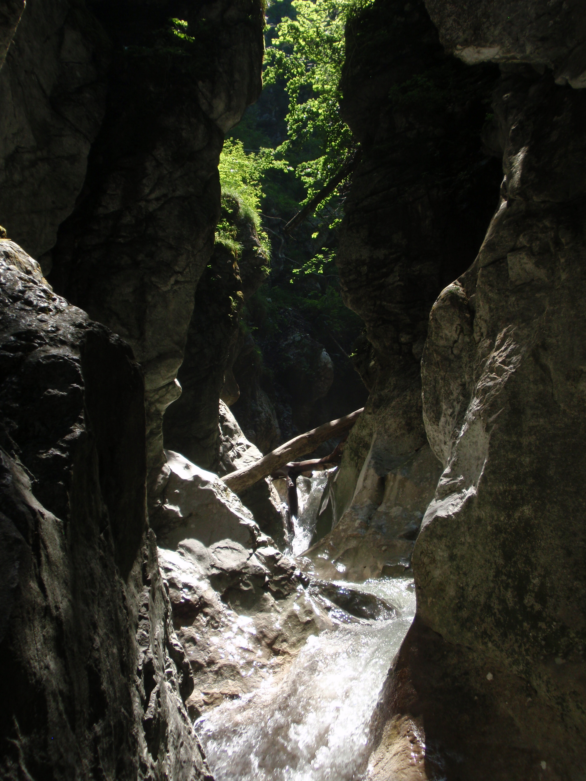 Burgrabenklamm near Burgau am Attersee, Salzkammergut, Austria Boarisch: D'Buaggråmklãm in Buagau am Atasee, Såizkãmaguad, Ésdaraich